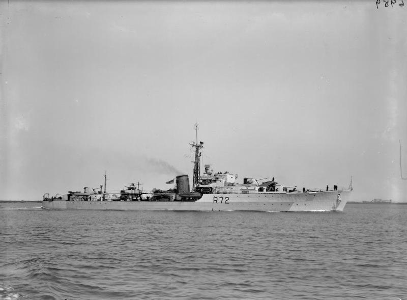 Photograph of British destroyer HMS Wizard.